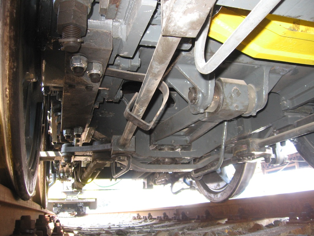 V 60 - Beugniot lever - Ostrava, Czech Raildays 2012